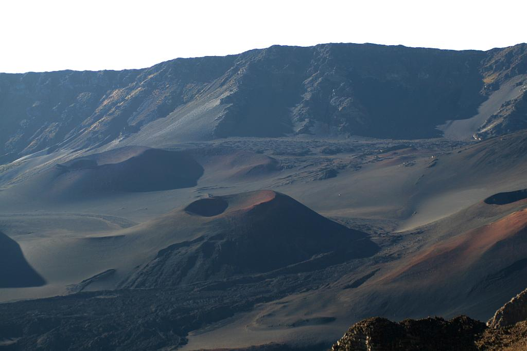 Haleakala Crater